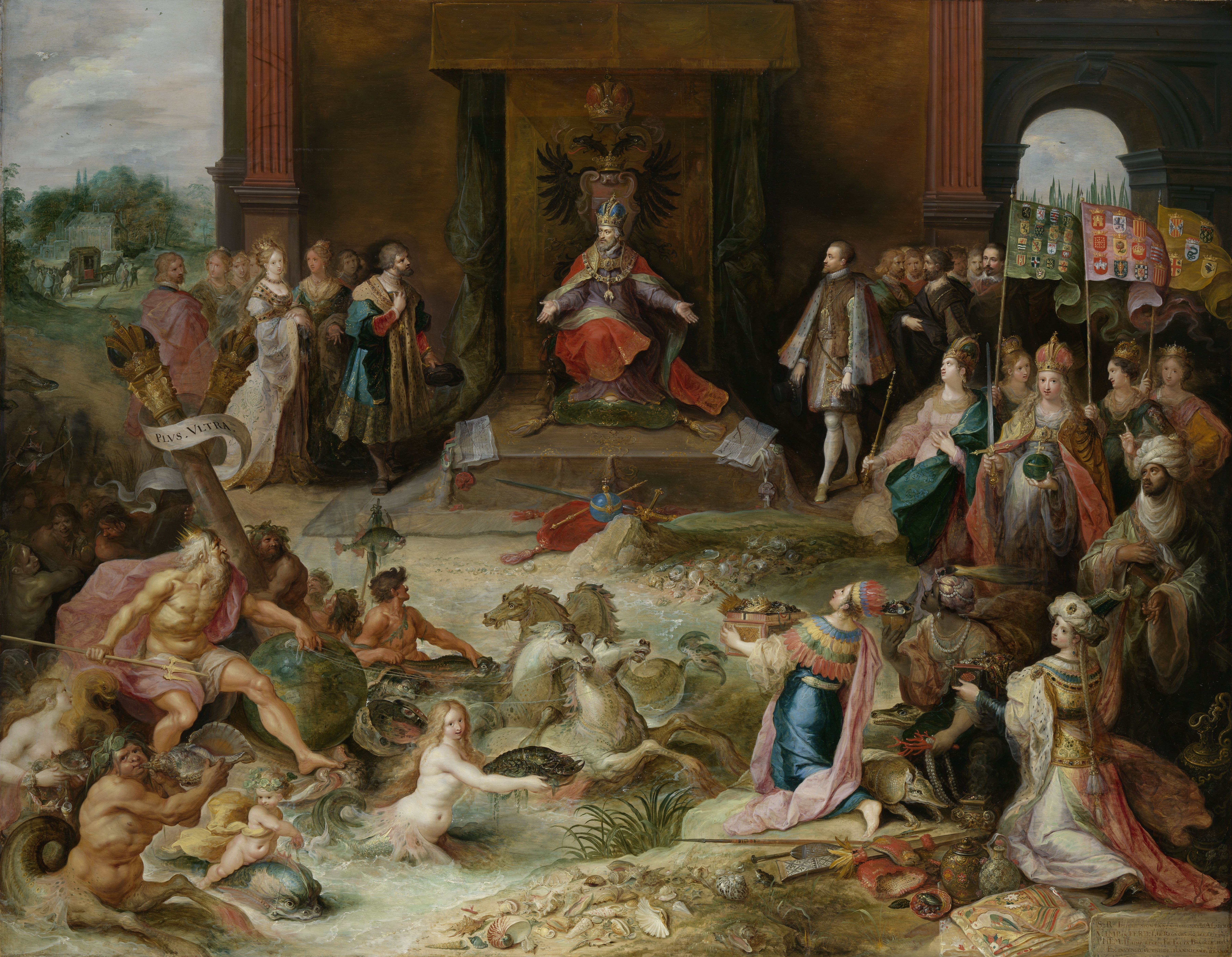 Allegory on the Abdication of Emperor Charles V in Brussels. In the middle Charles V is seated on his throne flanked by his successors Ferdinand I and Philip II. In front of Philip the personifications of the territories of the Empire with their banners are kneeling down. In the foreground the personifications of the continents, America, Africa, Europe and Asia, are offering gifts. Left Neptune is riding his seahorse-drawn Triumphal chariot, accompanied by mermen, mermaids, tritons, etc. On the chariot a globe and the two columns with a banderole inscribed with Plus Ultra.